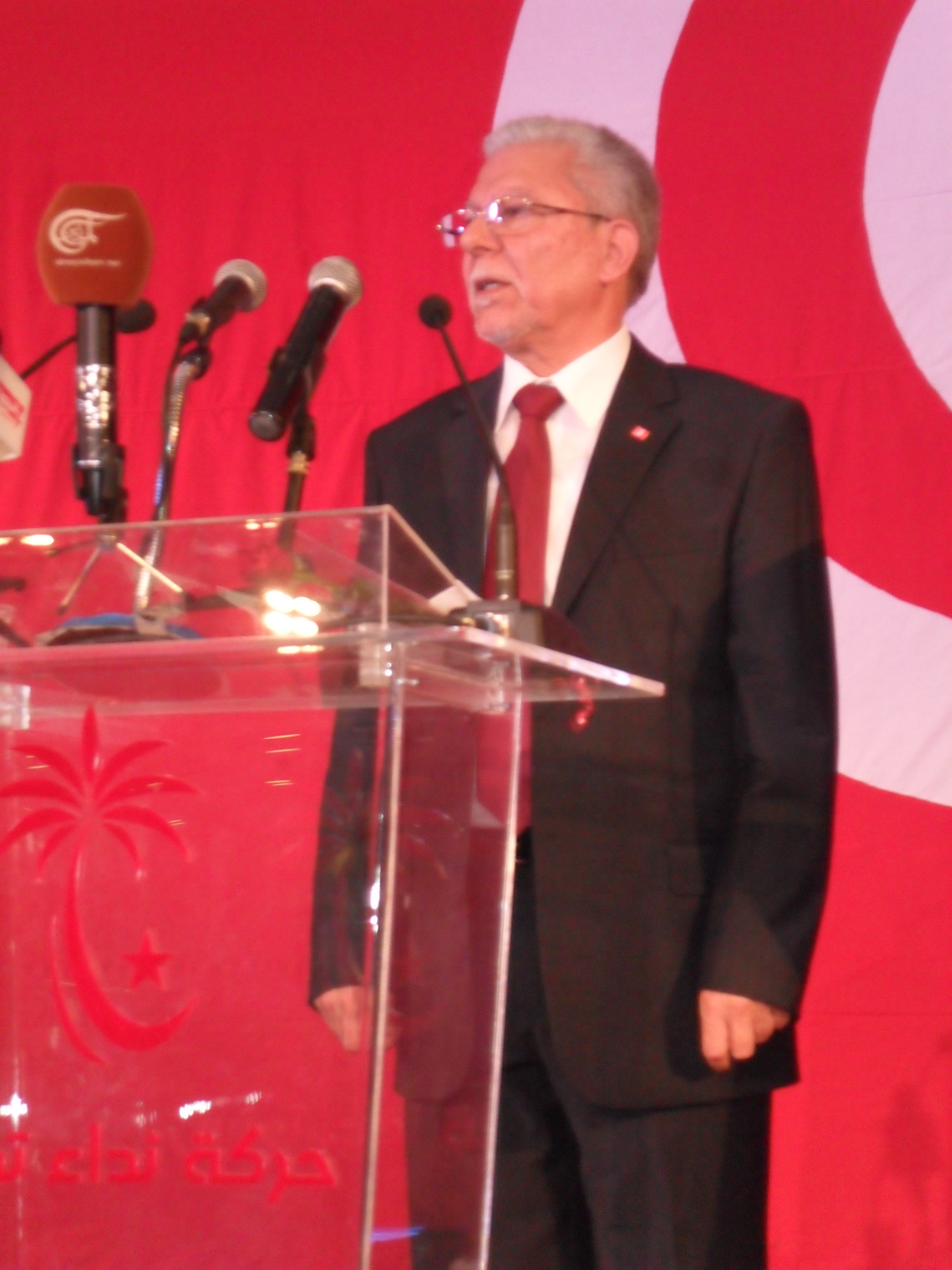 Taieb Baccouche (1938- ), Tunisian politician, unionist and former minister